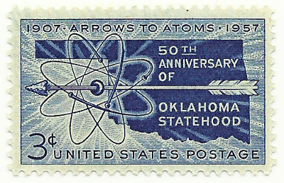 50th Anniversary of Oklahoma Statehood - June 14, 1957 102,230,000 issued - Commemorative 50th Anniversary of Oklahoma Statehood-Arrows to Atoms - Designer: Wm. K. Schrage - Engraver: M. D. Fenton